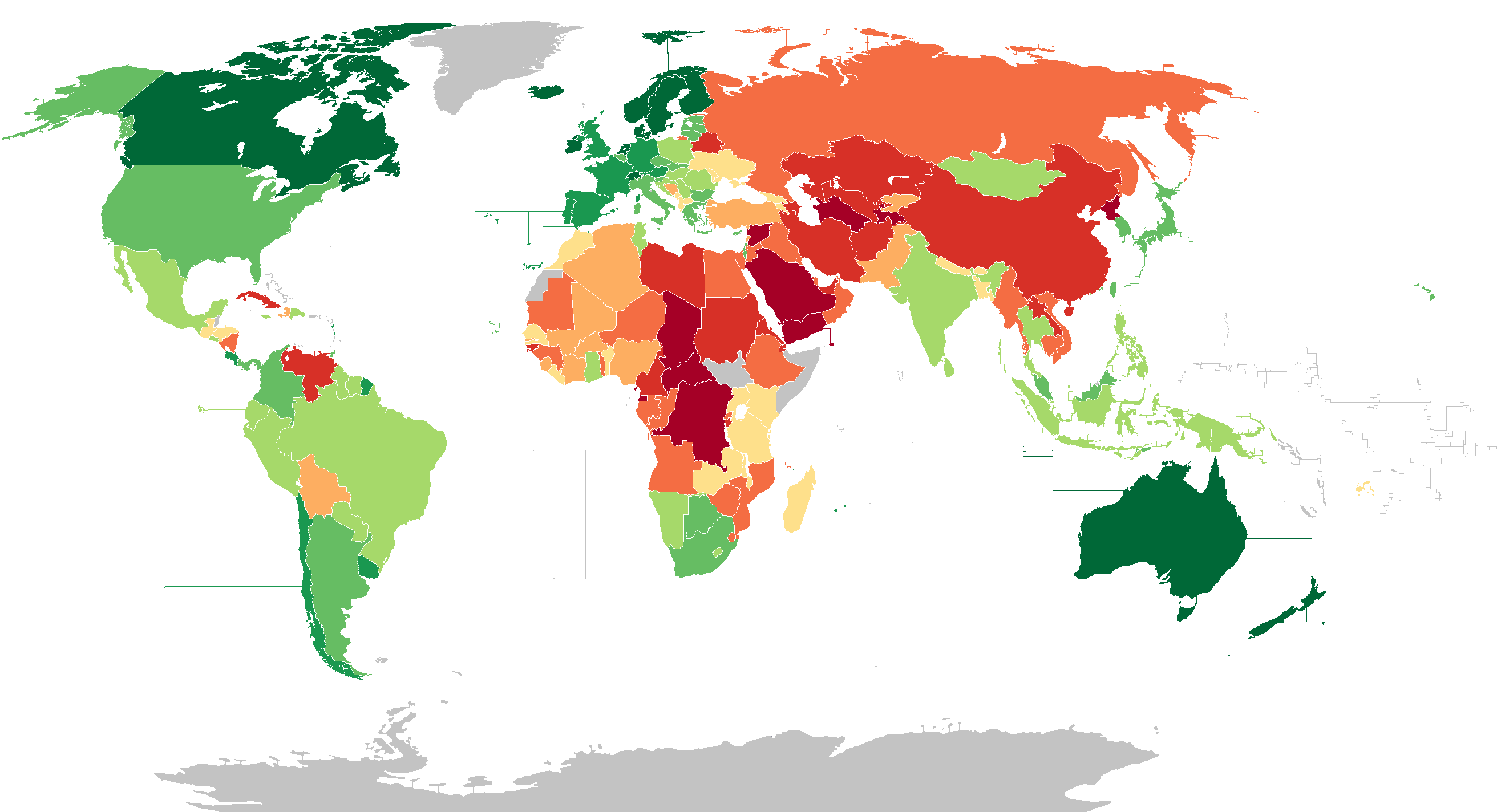 Democracy Index 2018 produced by Economist Intelligence Unit Full democracies 9.01–10 8.01–9 Flawed democracies 7.01–8 6.01–7 Hybrid regimes 5.01–6 4.01–5 Authoritarian regimes 3.01–4 2.01–3 0–2